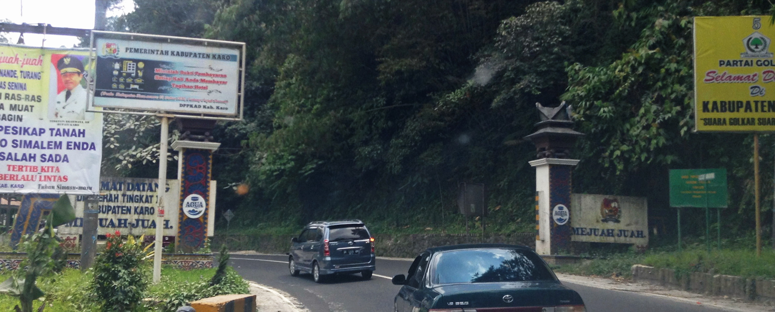 Welcome gate to Karo, Sumatra Utara (Karo-Deli Serdang)